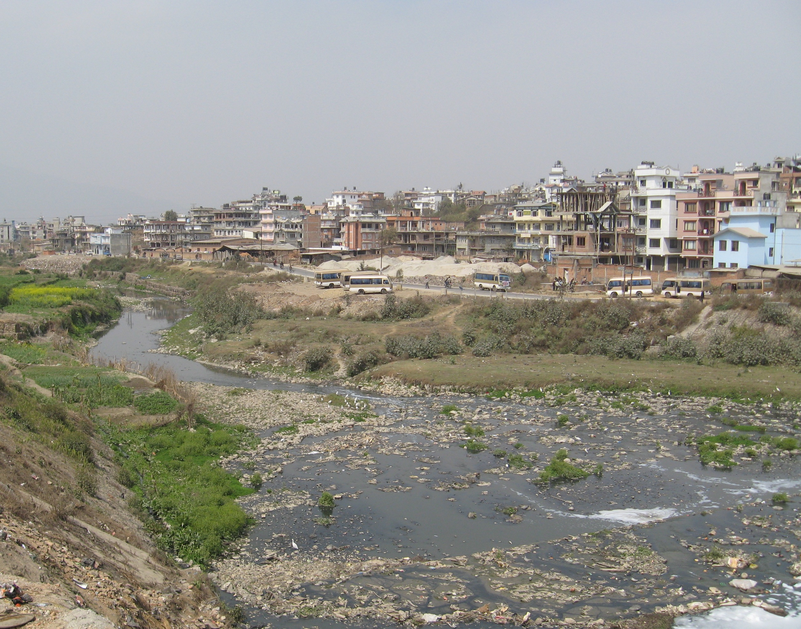 Bagmati River in Kathmandu.